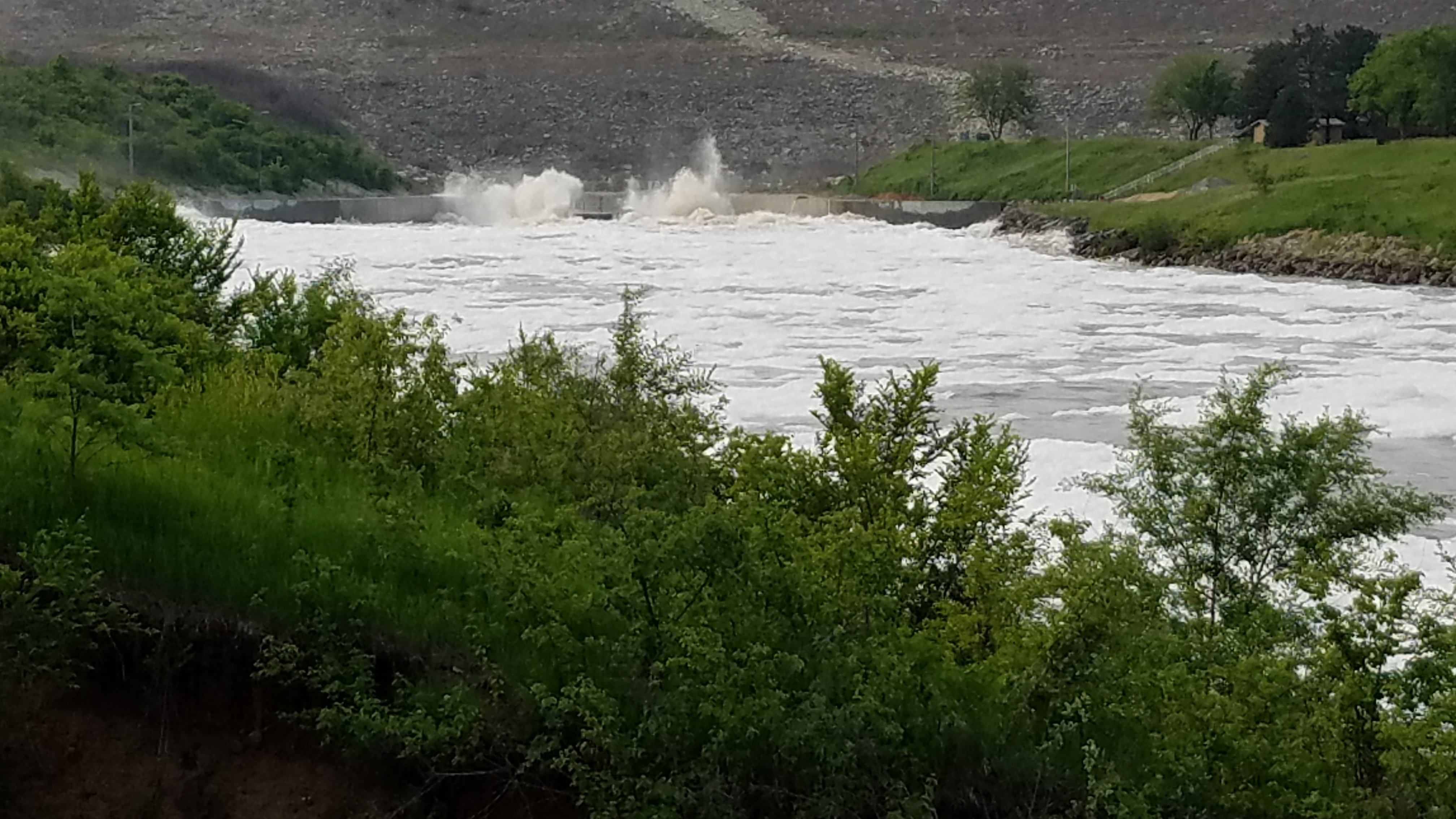 Tuttle Creek Lake "Tubes" releasing estimated 30,000 cubic feet per second (850 m3/s) with the Kansas River at almost 19 feet (5.8 m), May 31, 2019.